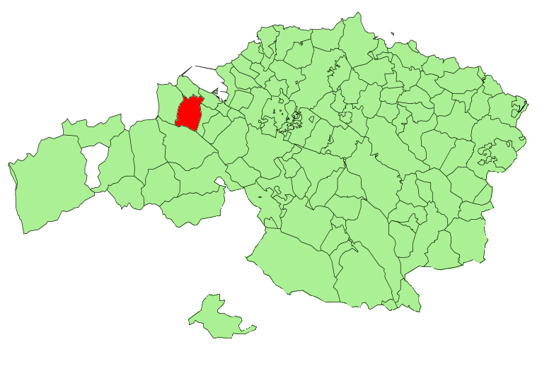 Abanto Zierbena municipality in the province of Biscay